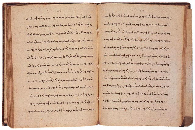 pages from a Lontara (Bugis) manuscript at the Library of Congress. Original description - " Story of a War Between Two Young Bugis Rajas over a Princess." Coming from South Sulawesi (Belebes[sic]), the Bugis began to migrate to the Malay peninsula in the late seventheenth century, fleeing civil war and the loss of their spice trading network to the Dutch East India Company. On the Malay peninsula, the Bugis became a major political force, even founding their own political dynasty in what is now the state of Selangor. This Bugis manuscript was one of ten purchased in Singapore by the Wilkes Expedition in 1842. Written in the Bugis language in an Indic-derived script, these rare manuscripts are important examples of nineteenth-century literature of the Bugis diaspora. (Bugis Manuscript Collection, Asian Division)